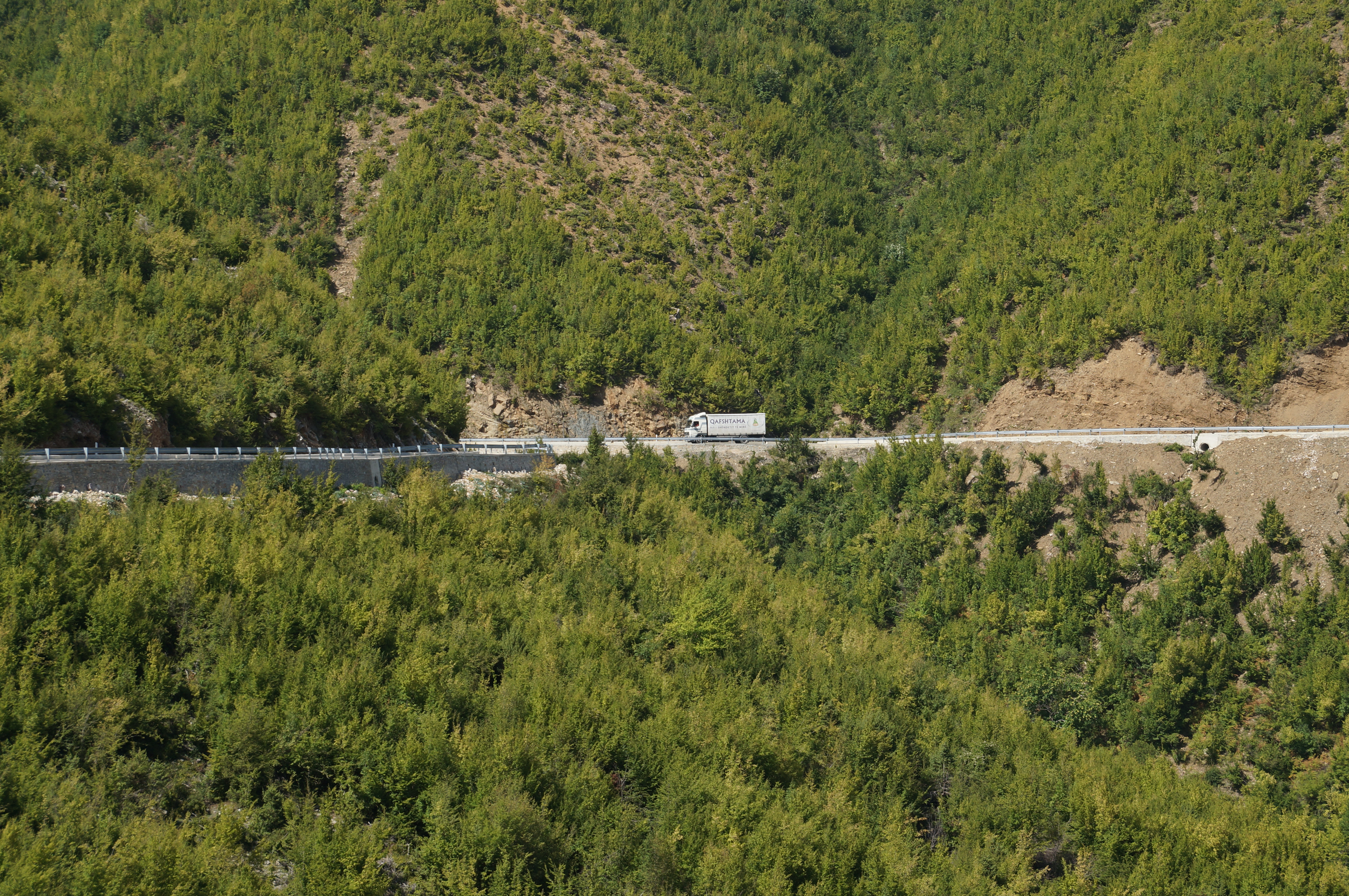 Truck on a road in the Qafë Shtame National Park, Kruja, Albania